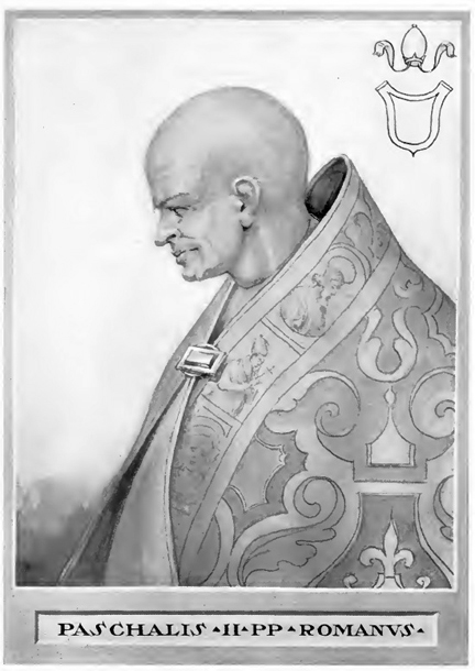 This illustration is from The Lives and Times of the Popes by Chevalier Artaud de Montor, New York: The Catholic Publication Society of America, 1911. It was originally published in 1842.